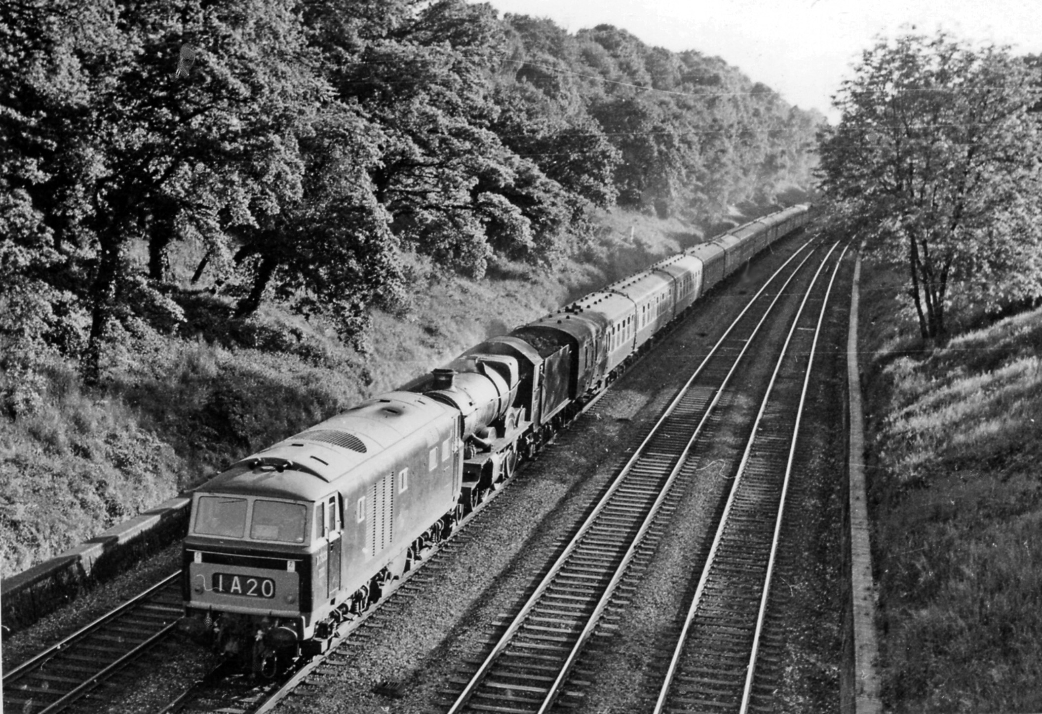 Diesel + Steam combination on and Up express in Sonning Cutting. View westward, towards Reading and the West; ex-GWR Paddington - Bristol, South Wales etc. main line. The Up 'Pembroke Coast Express' (13.05 Pembroke Dock - Paddington) seems to have had a failure - probably of the Diesel, on which the principal Driver is in charge: 'Castle 4-6-0 No. 5013 'Abergavenny Castle' has been attached 'inside' to assist Beyer-Peacock Hymek Type 3 Diesel-hydraulic B-B No. D7033.